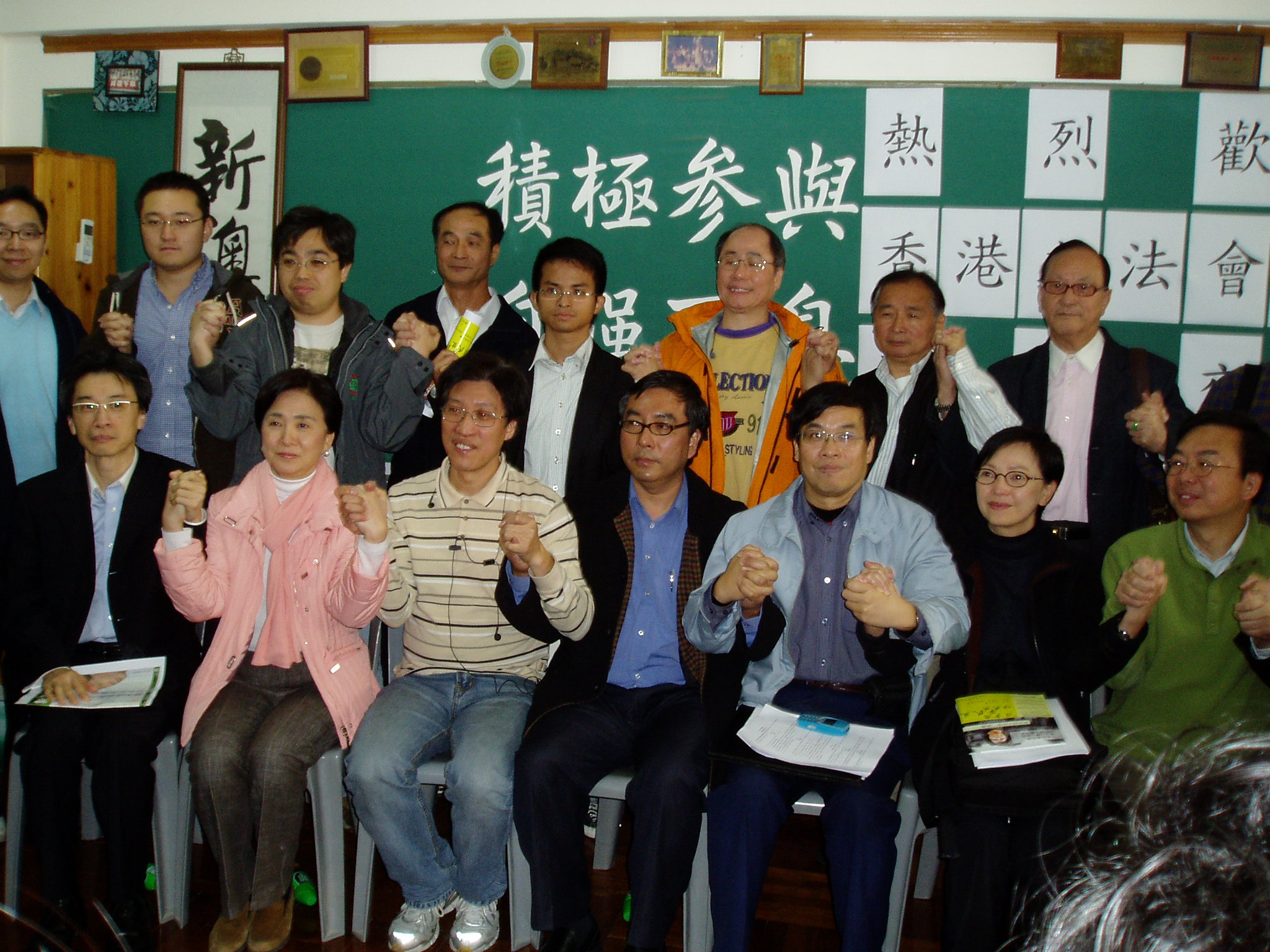 Group photo after seminar in Associação de Novo Macau